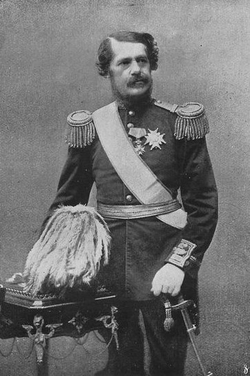 Swedish officer and politician Oscar Weidenhielm (1816-1884)